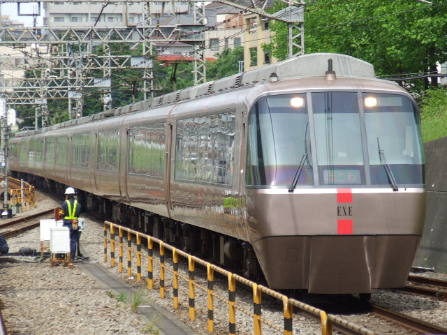 An Odakyu 30000 series EXE EMU at Shin-Yurigaoka Station on a Hakone service